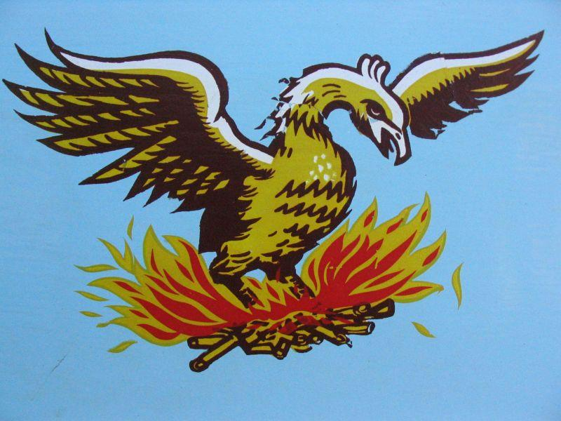 Phoenix emblem decals attached to the last eight trams built in Brisbane between 1963 and 1964, from material salvaged from trams destroyed in the Paddington tram depot fire of September 1962. The phoenix emblems were affixed under the driver's windows. The last eight trams were known as "phoenix cars".